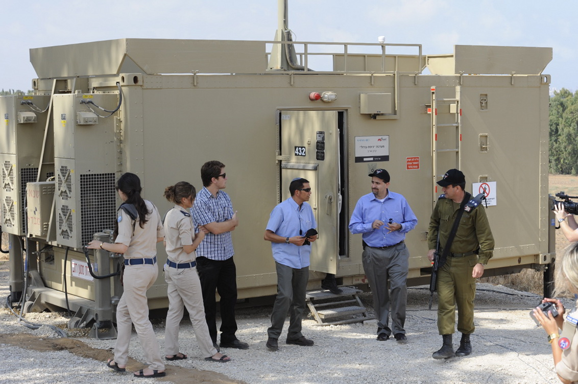 On Tuesday, August 9, 2011, Ambassador Daniel B. Shapiro travelled to the south of Israel for a tour of the Iron Dome Battery. He was hosted by Captain Elad Tzinman, Israeli Air Force Battery Commander, and Colonel Tzvika Chaimovitch, Israeli Air Force 167 Wing Commander. Ambassador Shapiro received a brief on the Iron Dome system and toured the Command Center. In a press statement following the tour, Ambassador Shapiro reiterated that the United States is committed to Israel’s security.